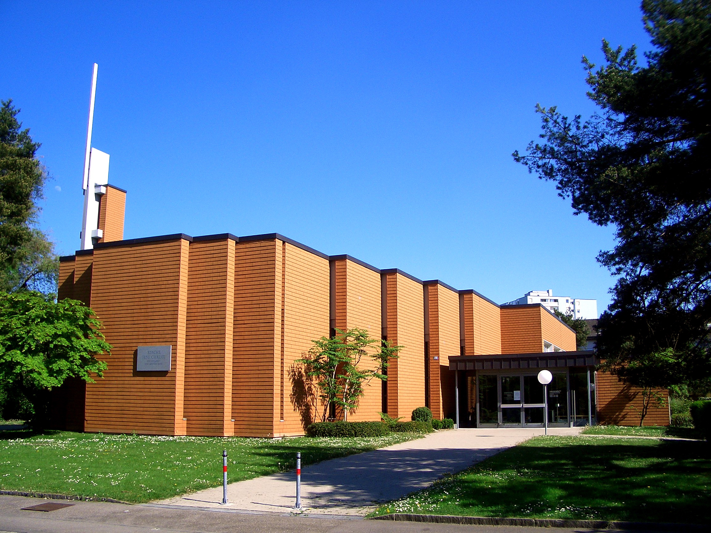 The Zurich stake center, a meetinghouse of The Church of Jesus Christ of Latter-day Saints.